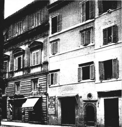 House of Febo Brigotti, doctor of Leo X, in Rome, Borgo Nuovo 106-107 (right building, the one on the left is the Palazzo Jacopo da Brescia)